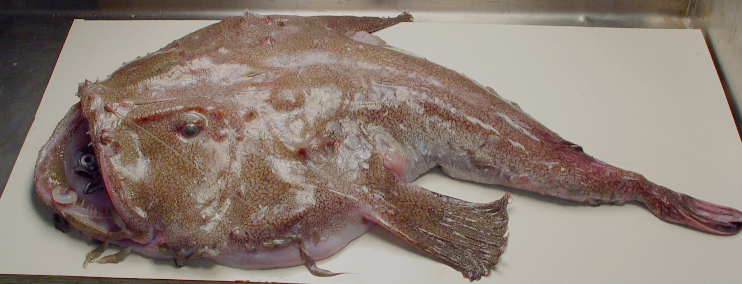 Blackfin goosefish (Lophius gastrophysus)